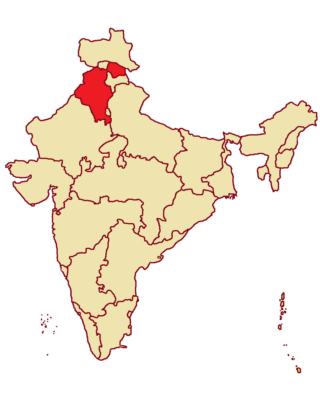 States and Union Territories of India, as of 1964-1965, i.e. between the creation of the state of Nagaland in 1963 and the Punjab Reorganization Act, 1966. Map does not include territories claimed by India but controlled by other countries. Borders not necessarily to scale. Based on File:States_of_India_(1964).png